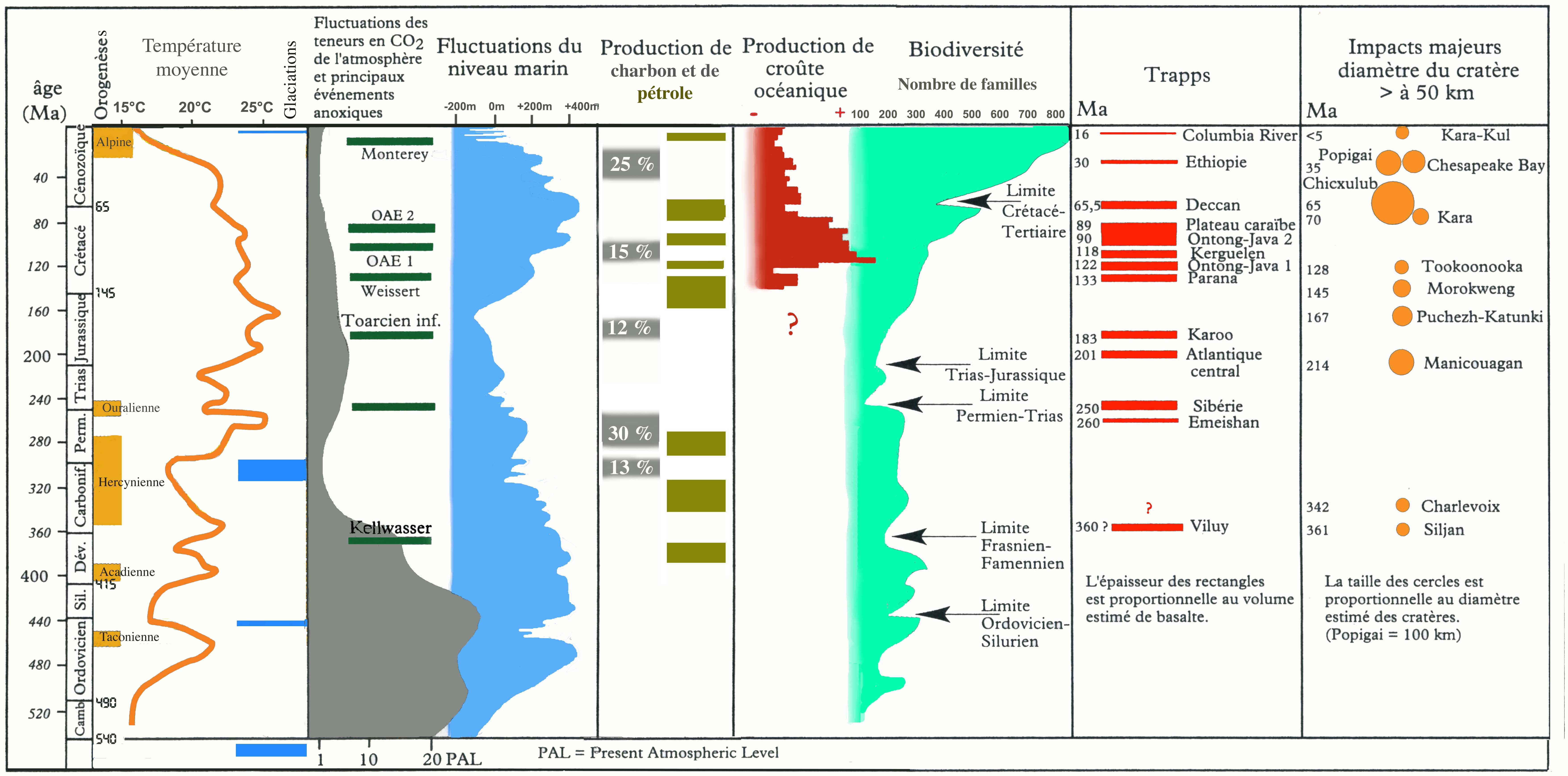 Extinctions